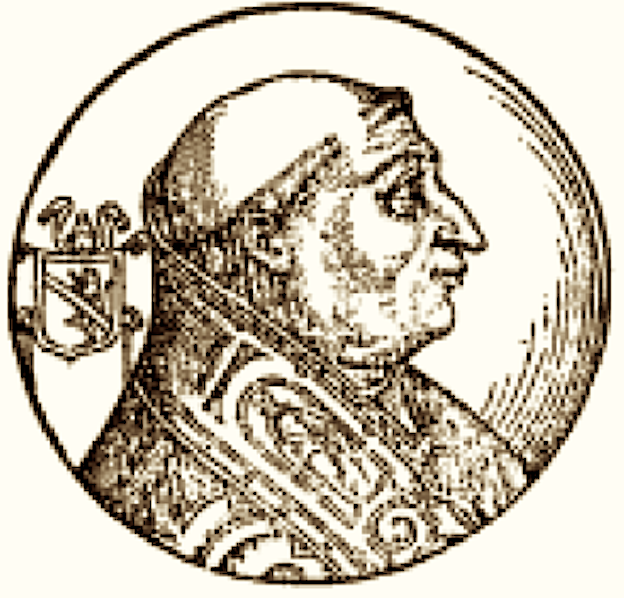 Paolo II